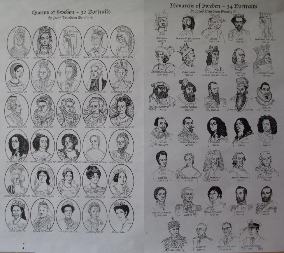 Throne of a Thousand Years's total amount of portraits of Kings and Queens of SwedenPlace: Sweden